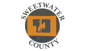 Sweetwater County, Wyoming Flag